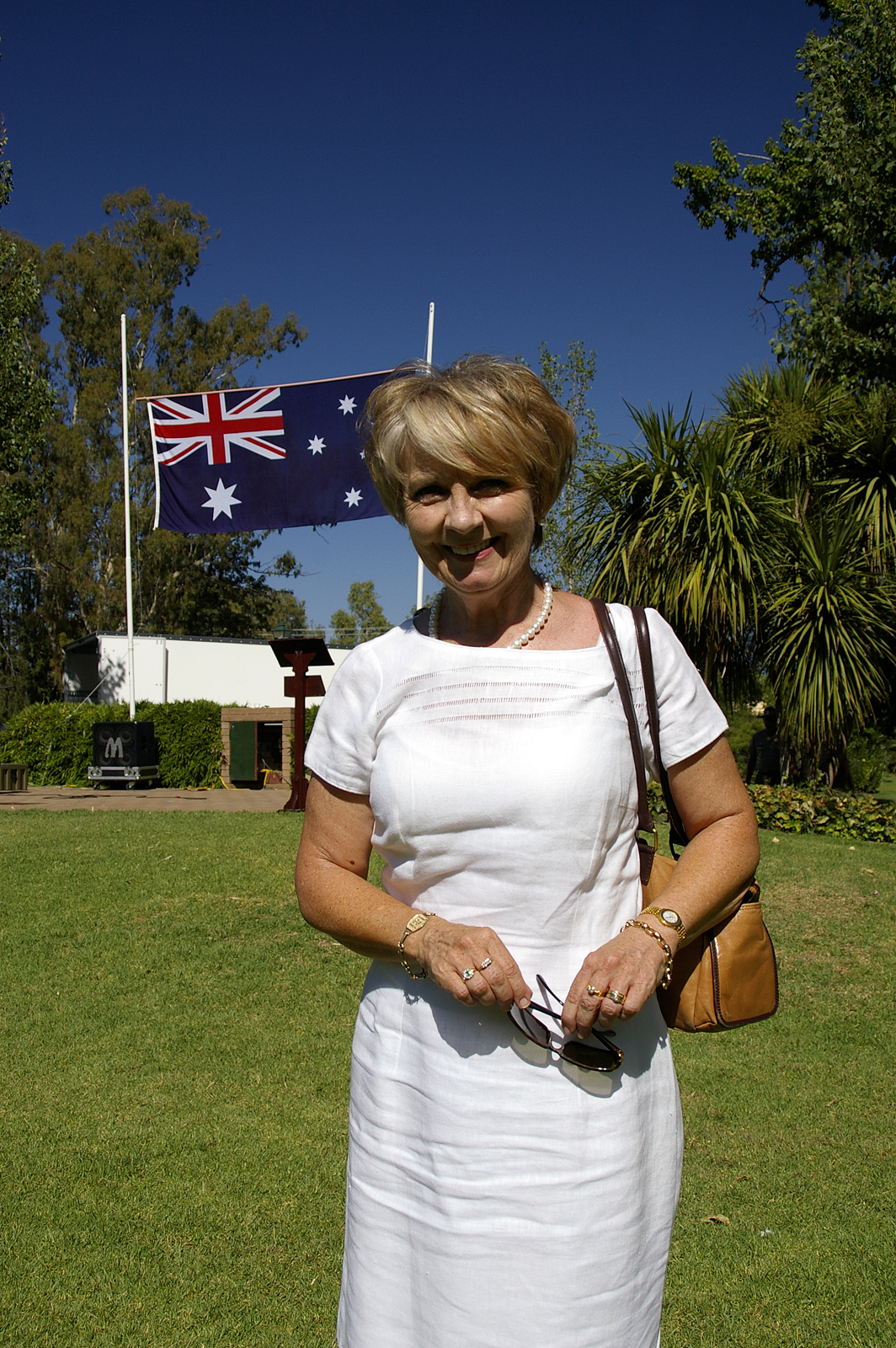 Member for Riverina, Kay Hull at Australia Day celebrations in Wagga Wagga, New South Wales.